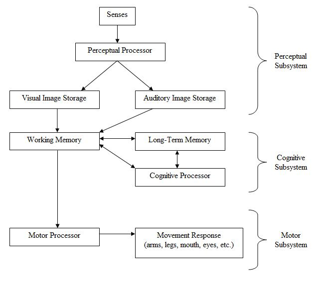 Model of the Human Processor